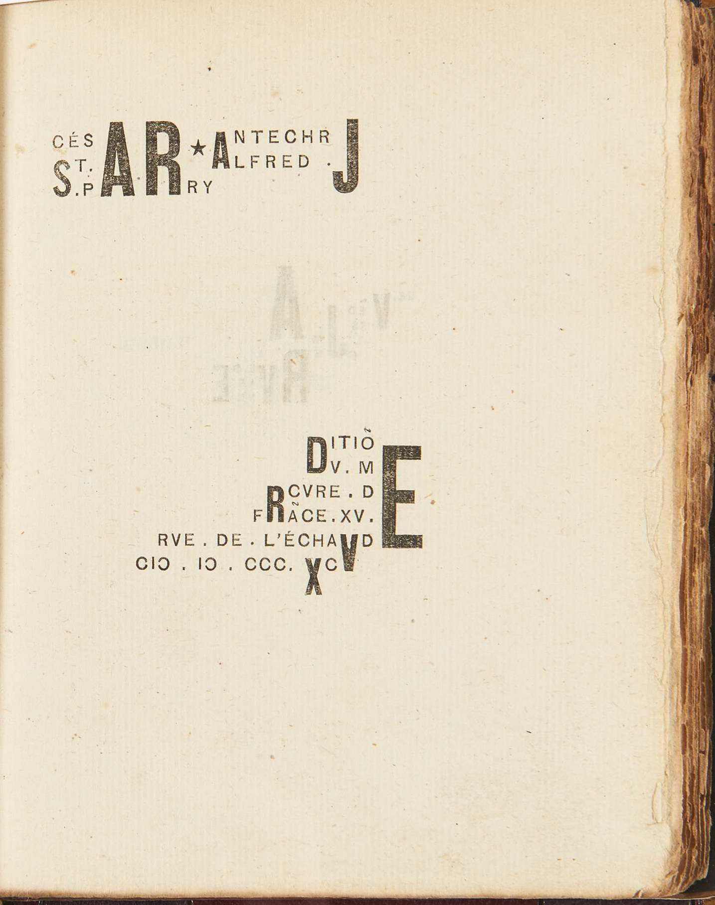 Title page to Alfred Jarry's 1895 publication of César Antéchrist, the play that preceded his most famous work, Ubu Roi. Jarry set the typeface by hand in an unconventional style that would be emulated by mant avant-garde book artists in years to come.